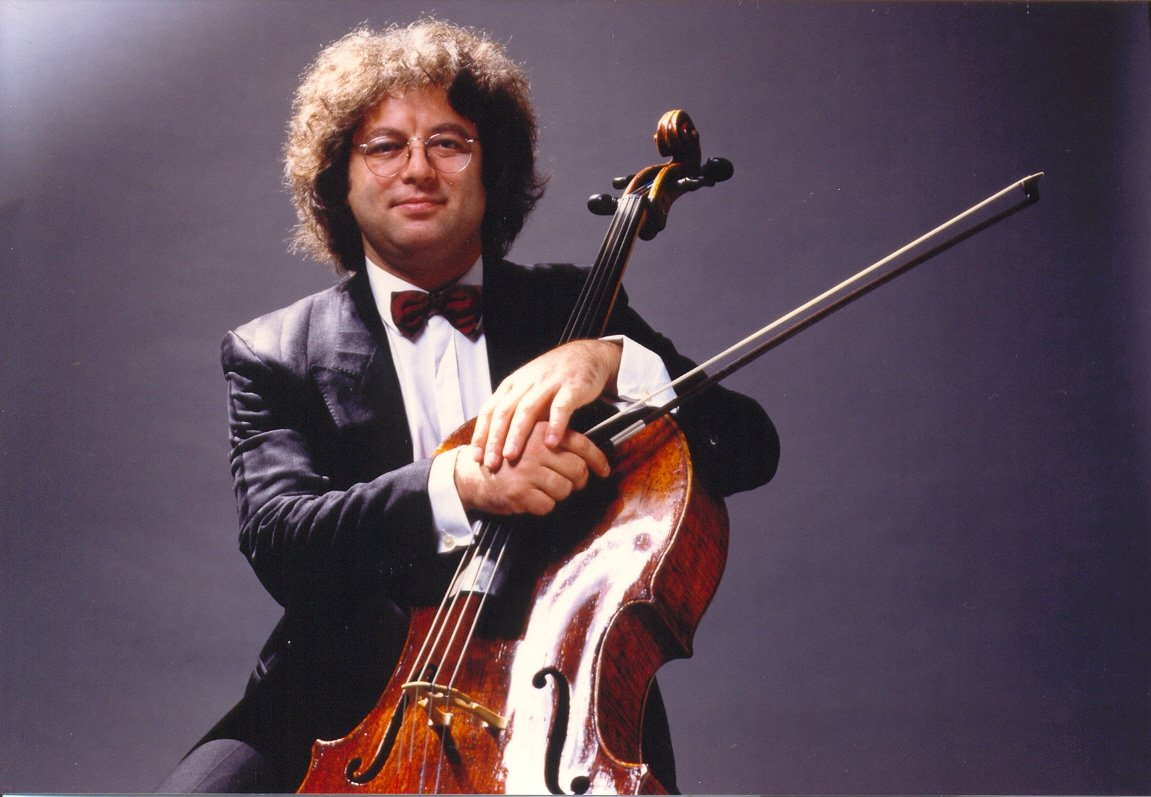 Photo of Emil Klein